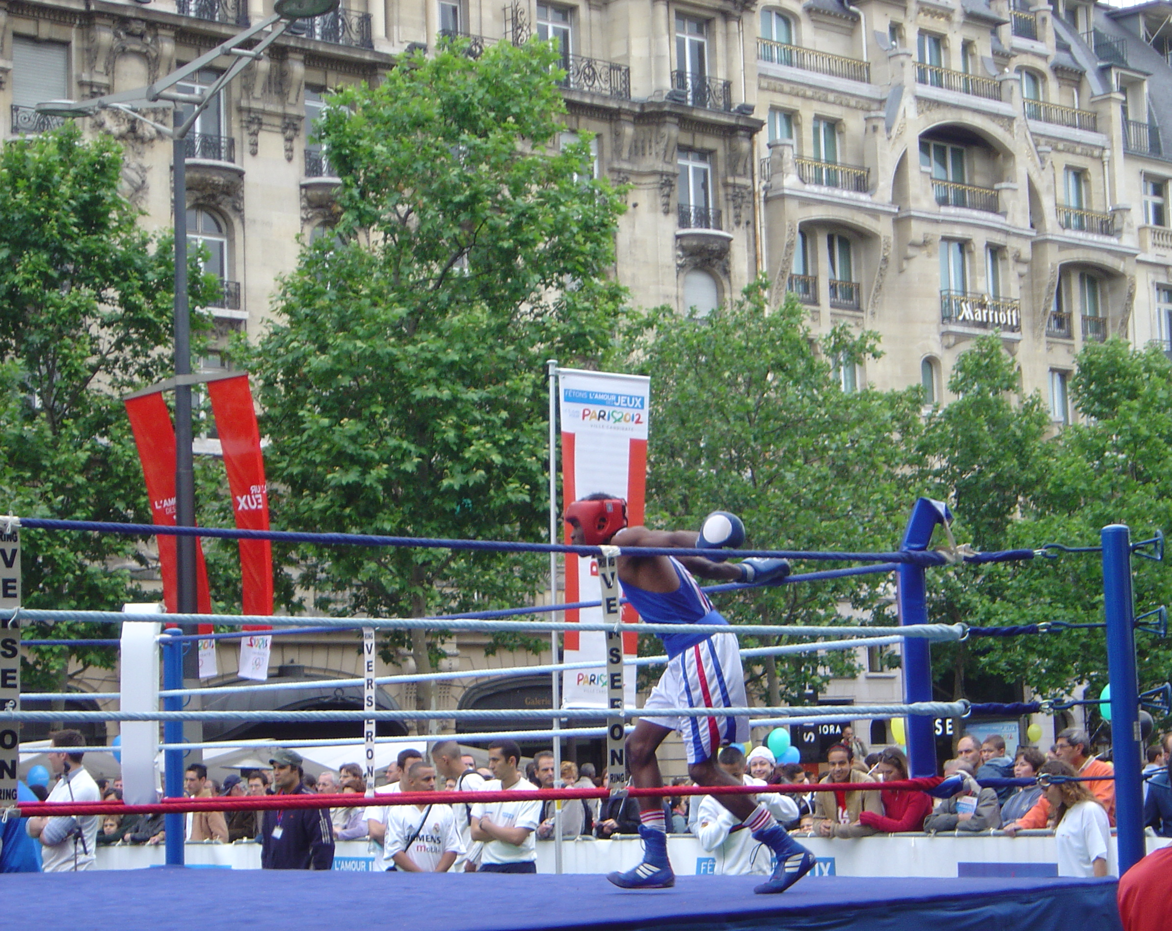 Boxing Party promoting the candidacy of Paris to the 2012 Olympic Games., Avenue des Champs-Élysées (Paris), 5 June 2005